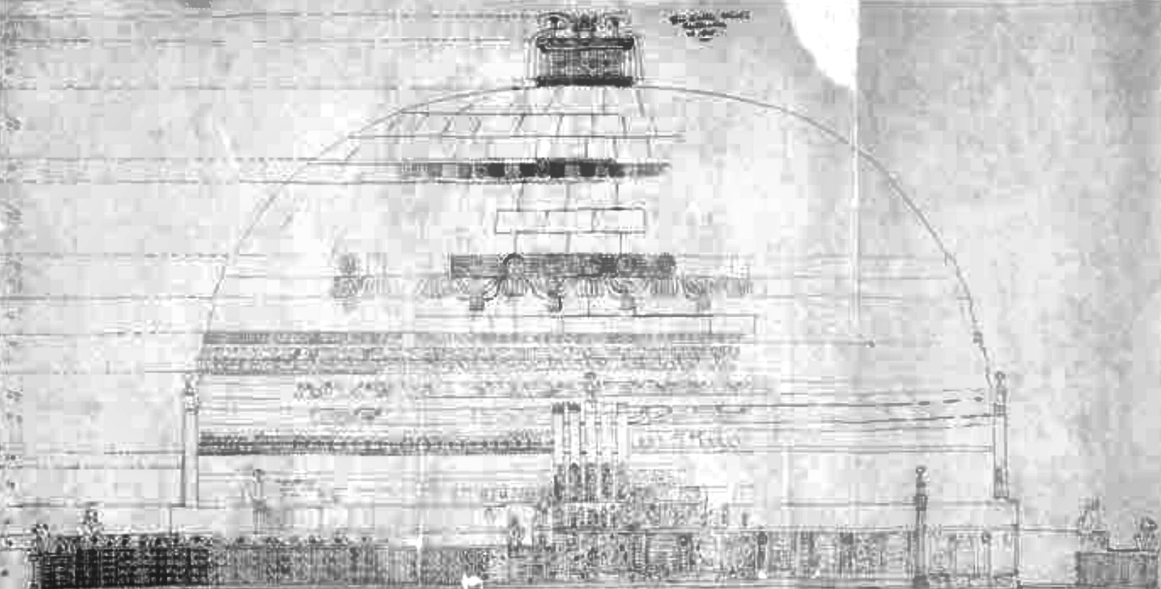 Amaravati Stupa reconstruction Walter Elliott 1845